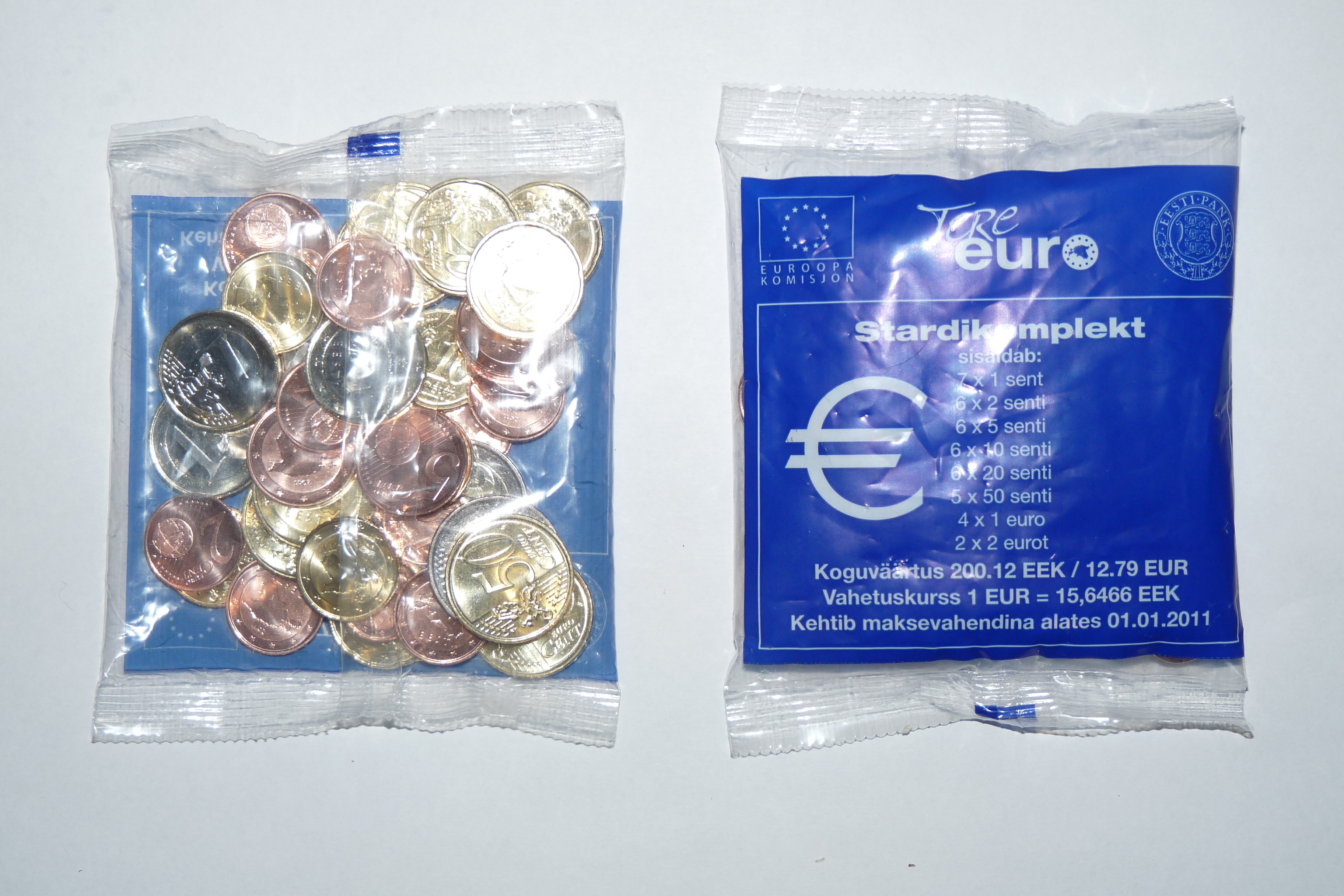 Bags with Estonian eurocoins.